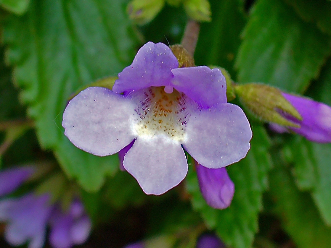 Haberlea rhodopensis (syn. H. ferdinandi-coburgi), Gesneriaceae, flower; Botanical Garden KIT, Karlsruhe, Germany.